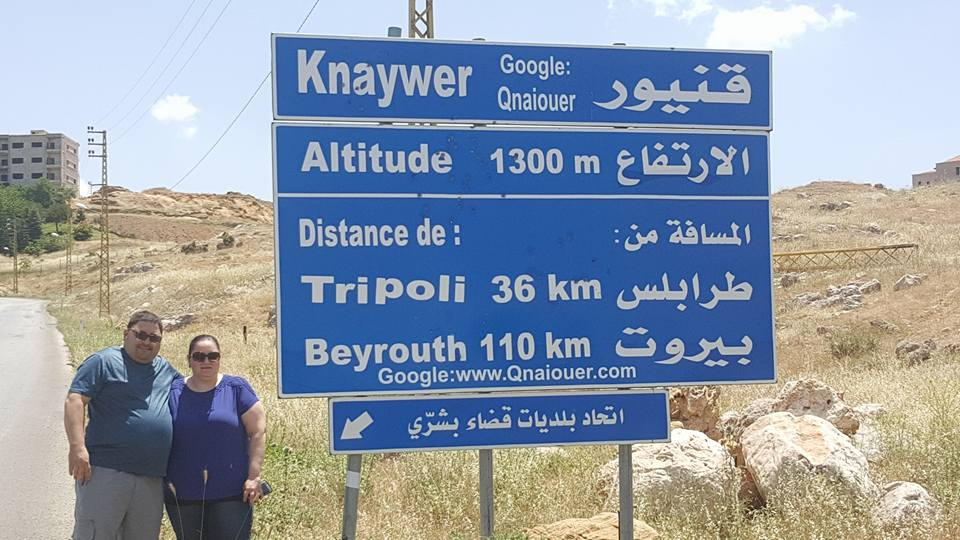 Welcome to Qnaiouer sign on the side of the road leading into the city